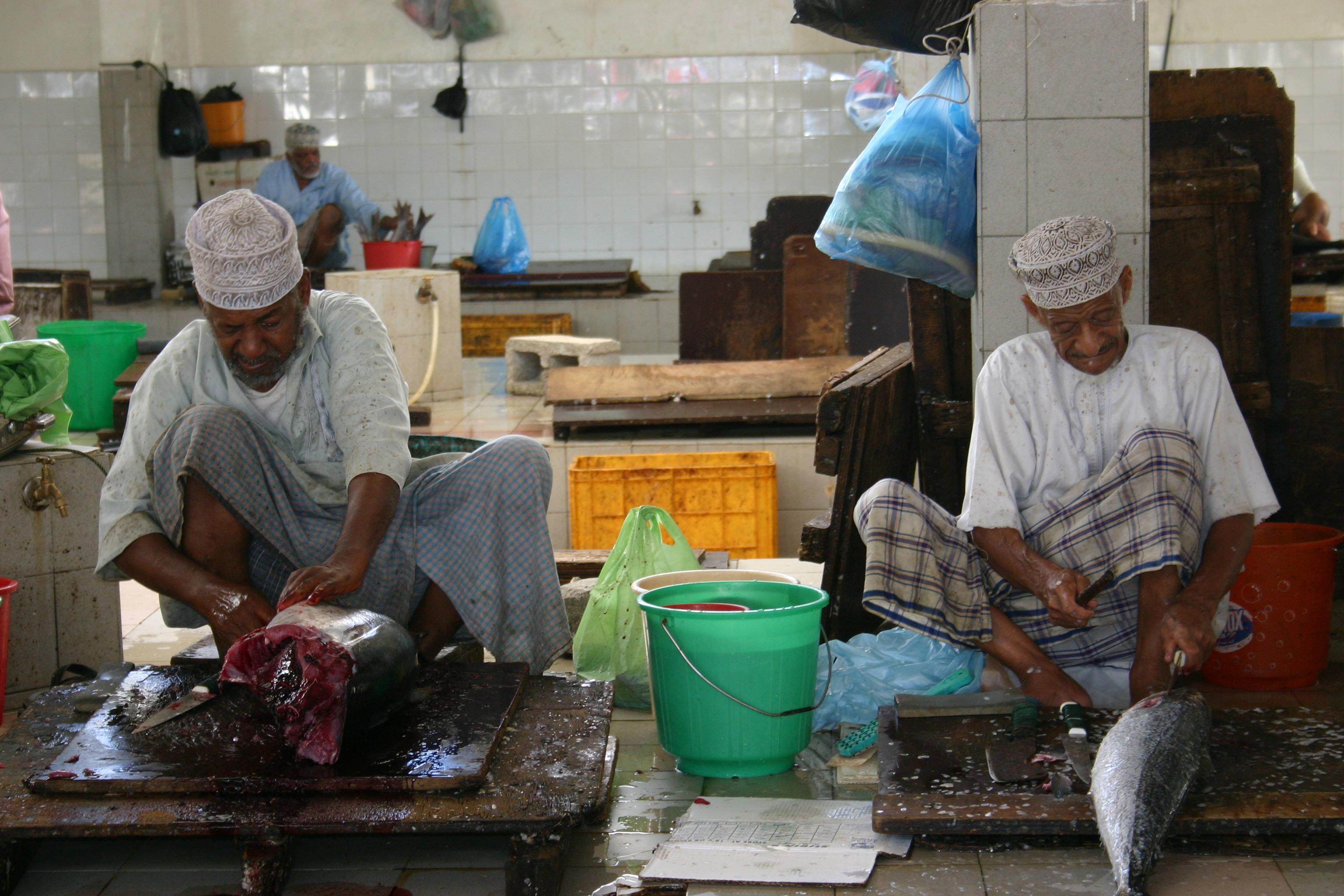 Fishmarket, Muscat, Oman, 2004. Photo by Bertil Videt